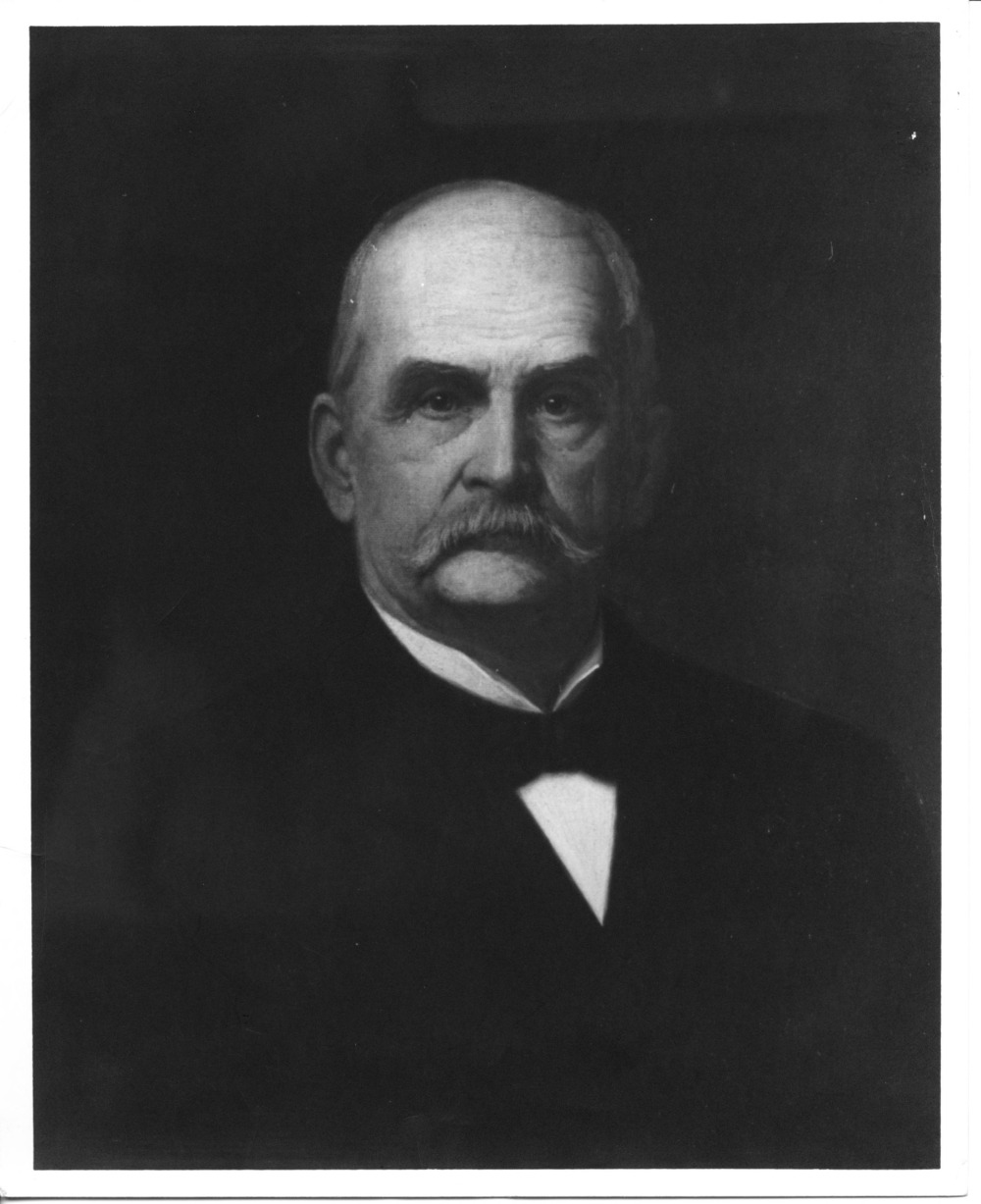 Portrait of Alexander Q. Holladay